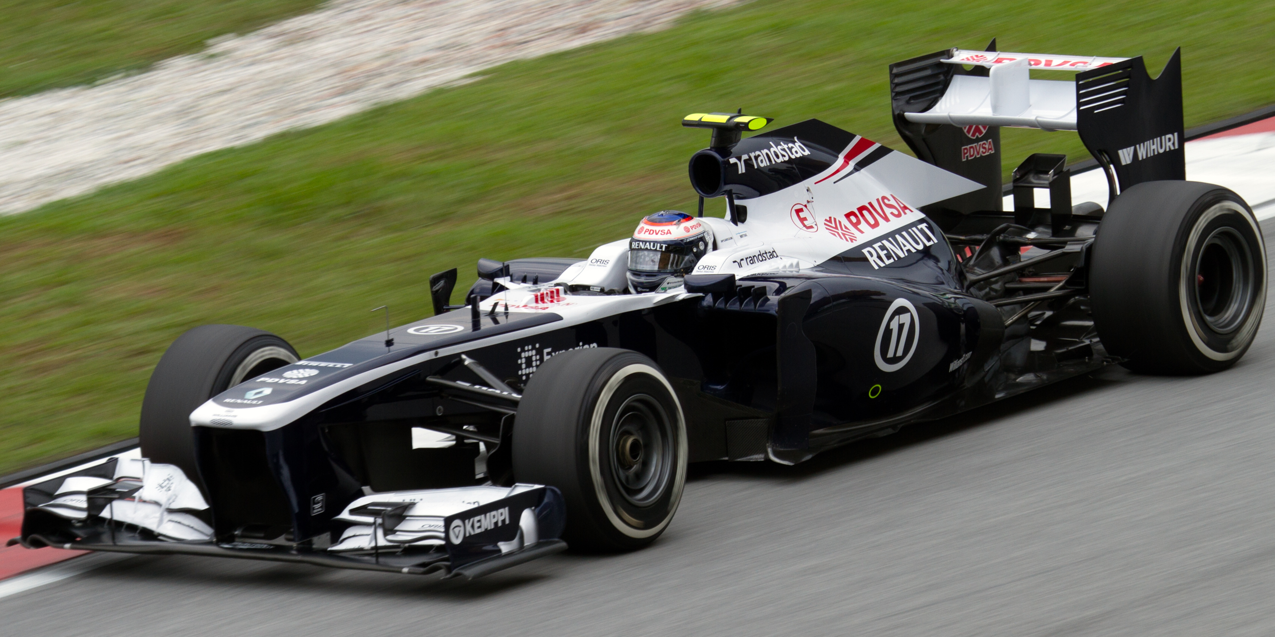 Formula One 2013 Rd.2 Malaysian GP: Valtteri Bottas (Williams) during the second practice session on Friday.